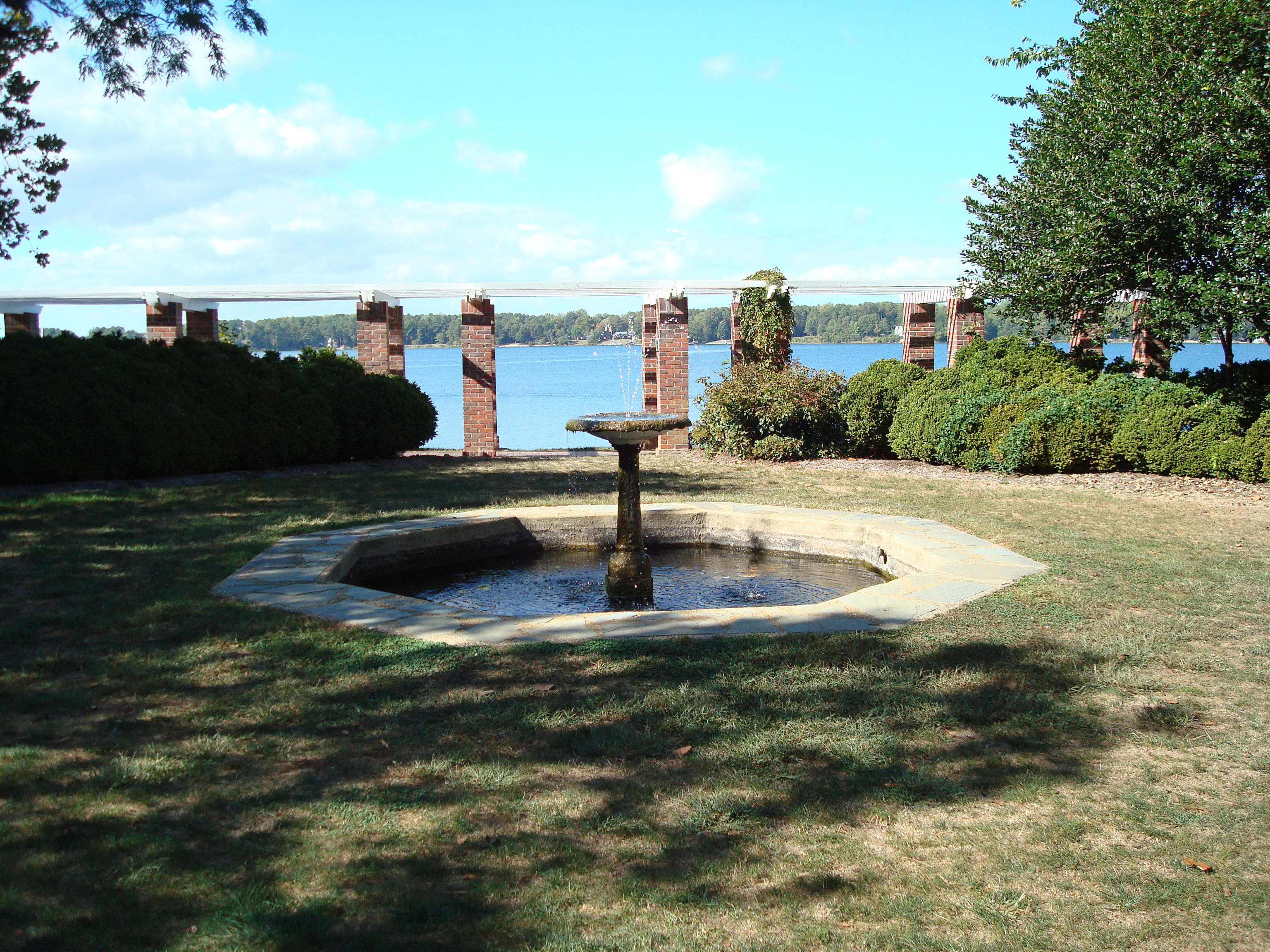 The Garden of Remembrance, a part of the St. Mary's College of Maryland campus.